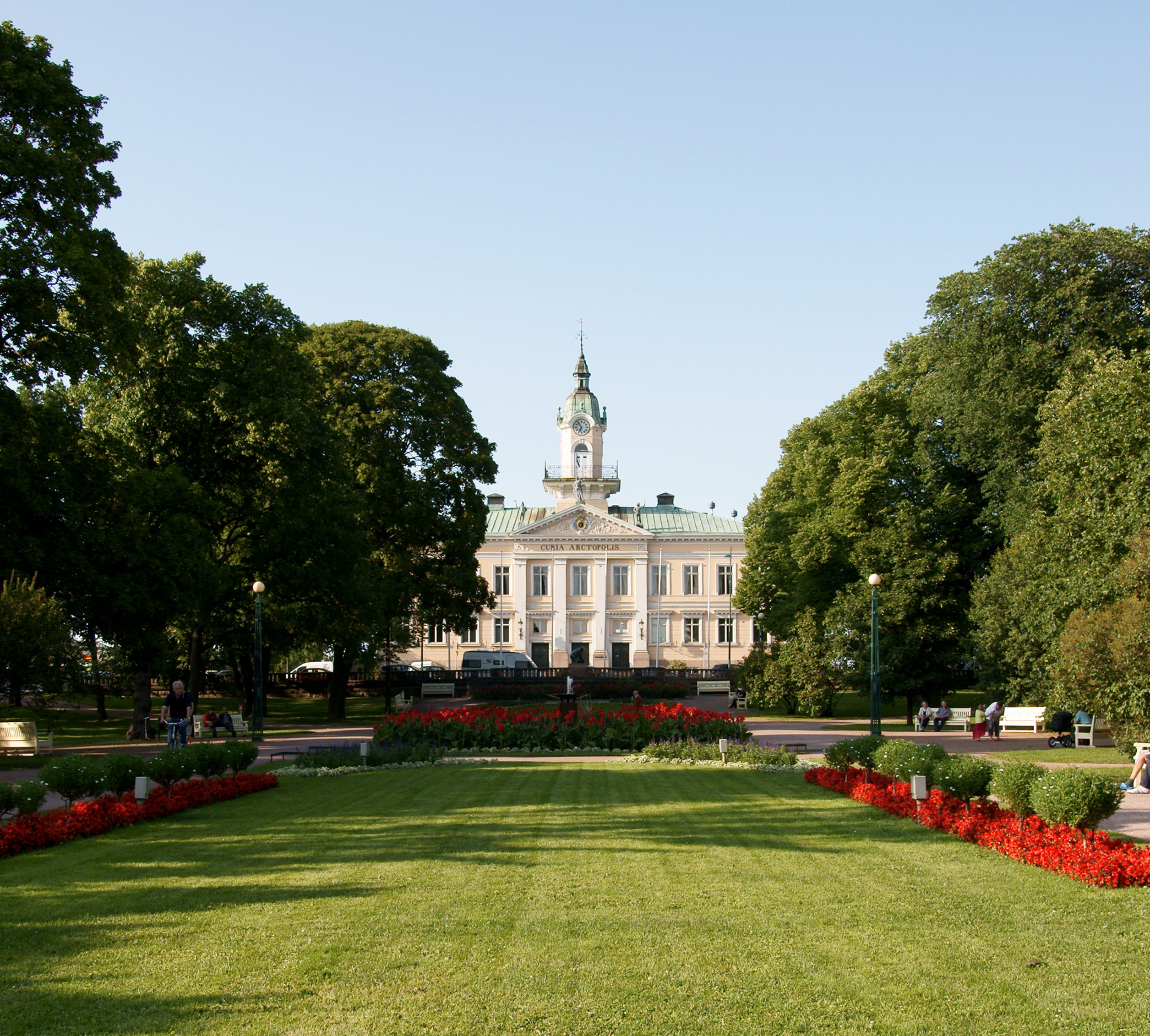 Pori town hall, Pori, Finland